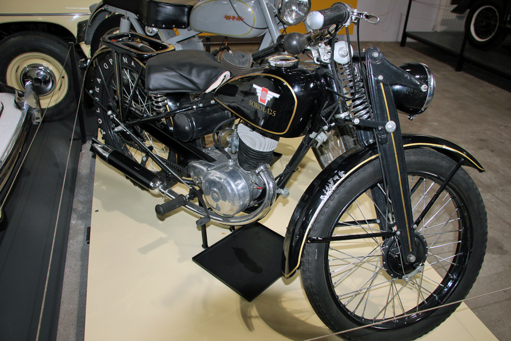 This photo was taken during Automotive Wikiexpedition 2016 set up by Wikimedia Polska Association.You can see all photographs in category Wikiekspedycja motoryzacyjna 2016. English | polski | +/−